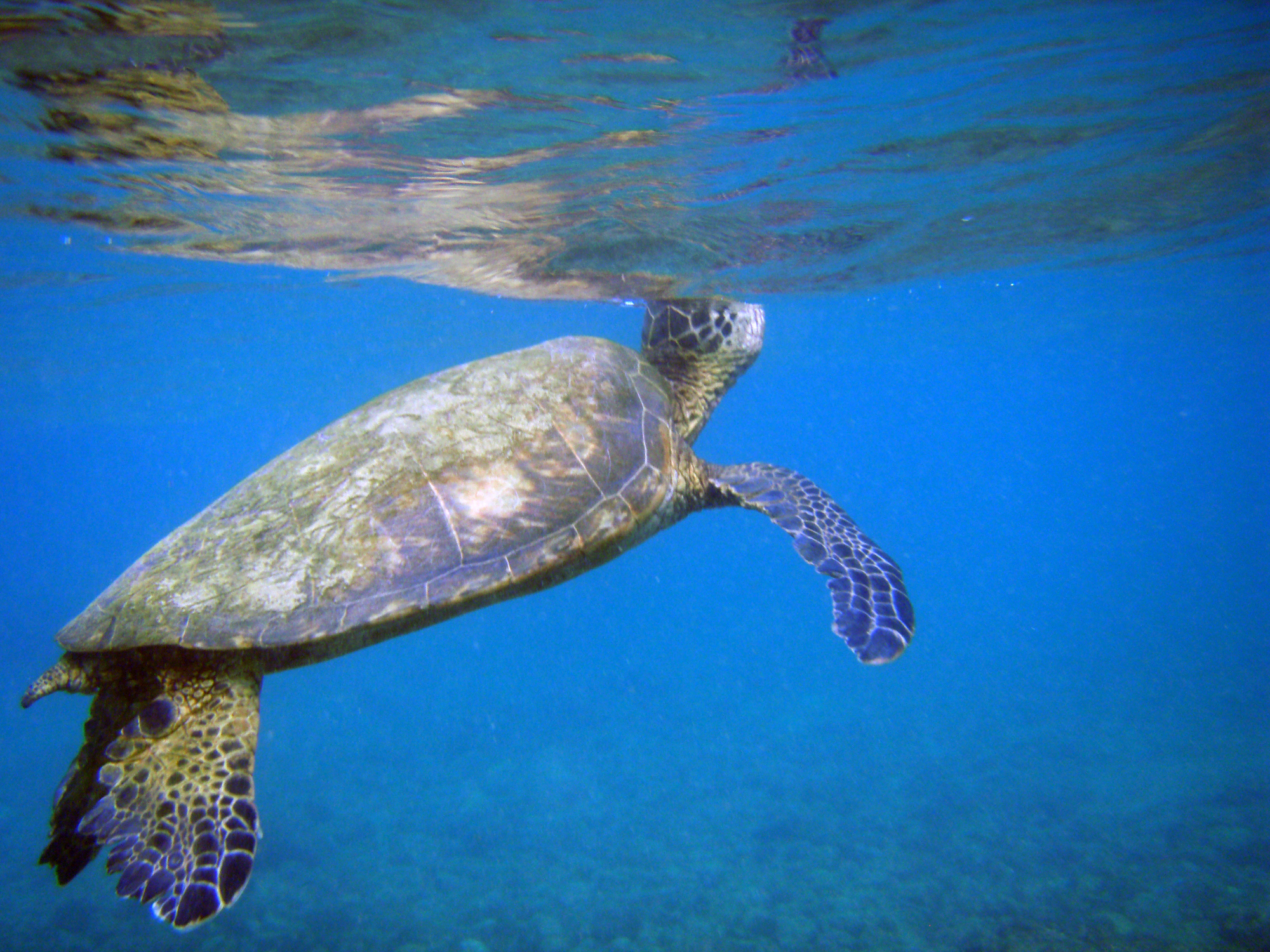 Green Sea Turtles, Chelonia mydas breaks the surface to breathe on the Big Island of Hawaii